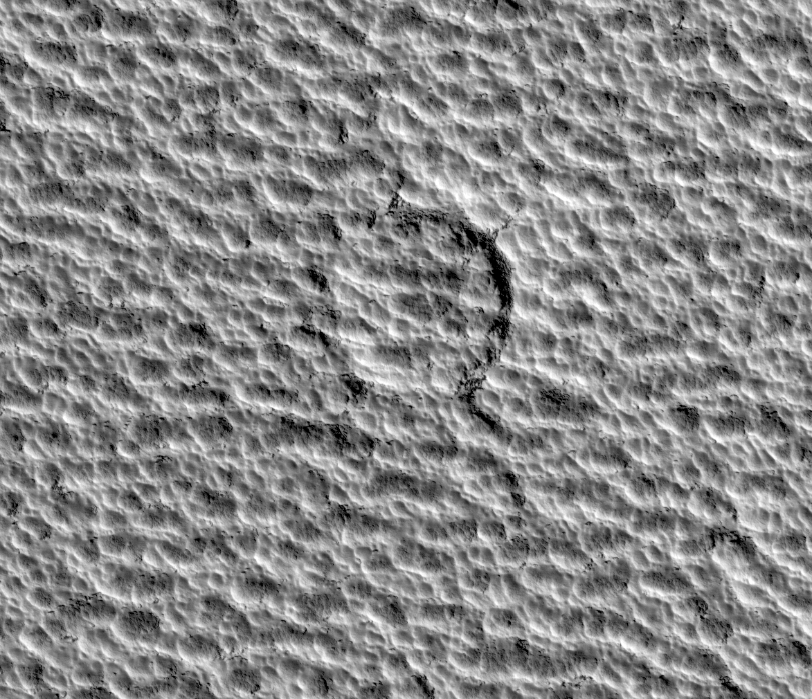 HiRISE image of a crater in Planum Boreum. Source: [1] (complete picture available). The original caption was